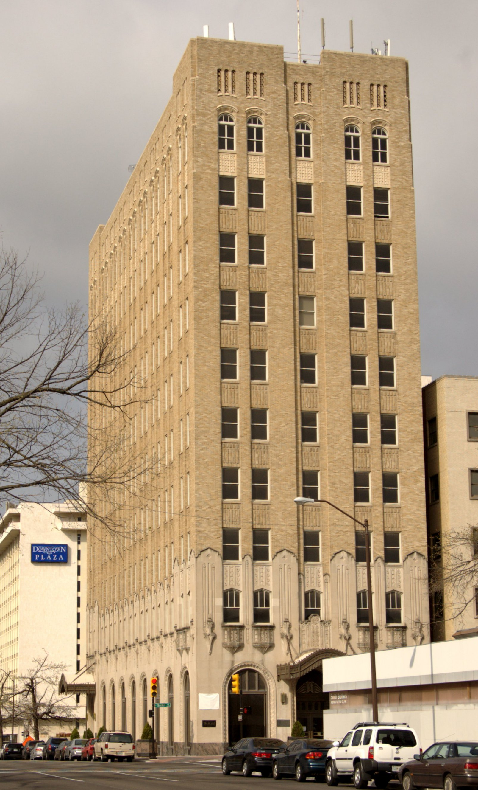 Oklahoma Natural Gas Building, 624 S. Boston Ave., Tulsa Oklahoma, Built 1928. Art Deco Zig-Zag style. Listed on National Register of Historic Places.